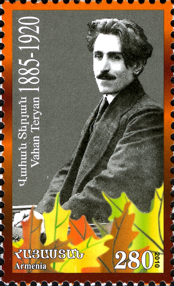 Vahan Teryan on a 2011 Armenian stamp